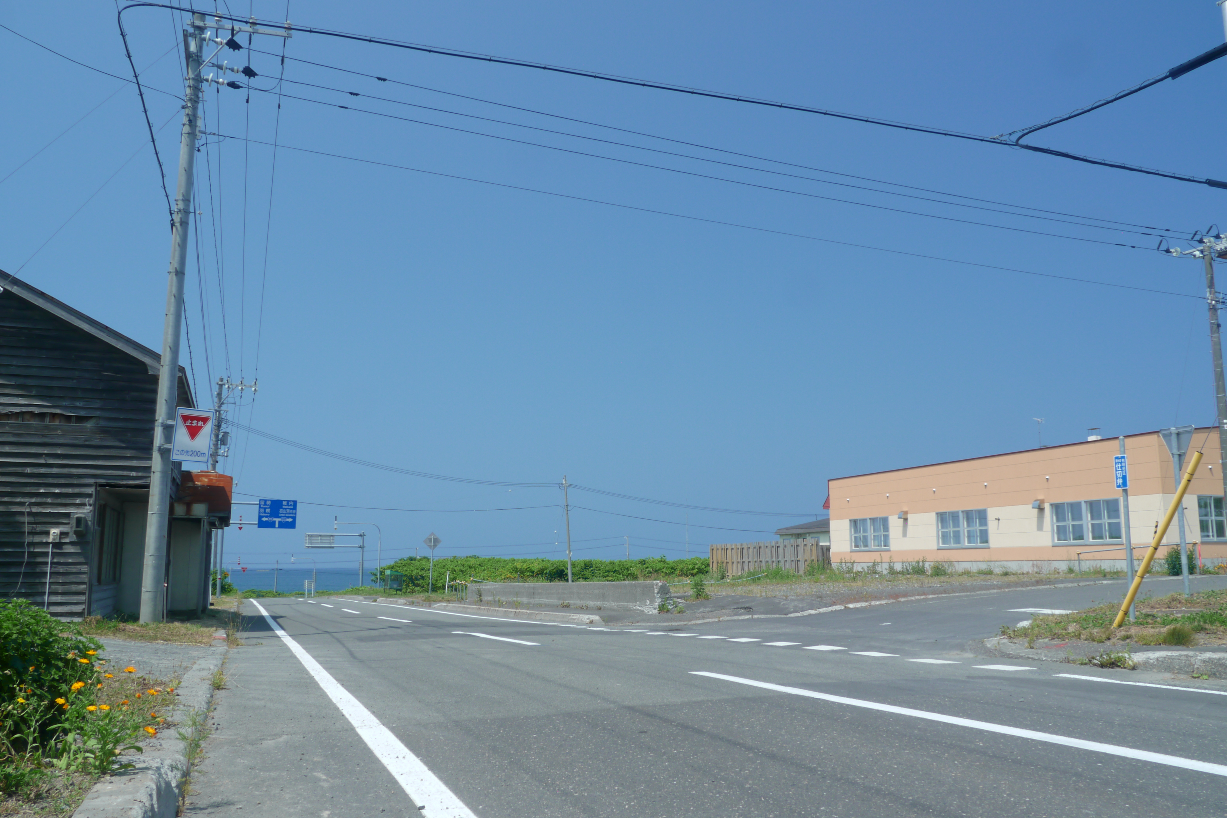 The remains of Teshioariake Station of the Haboro Line in Hokkaido, Japan. Photo taken on July 28, 2011.